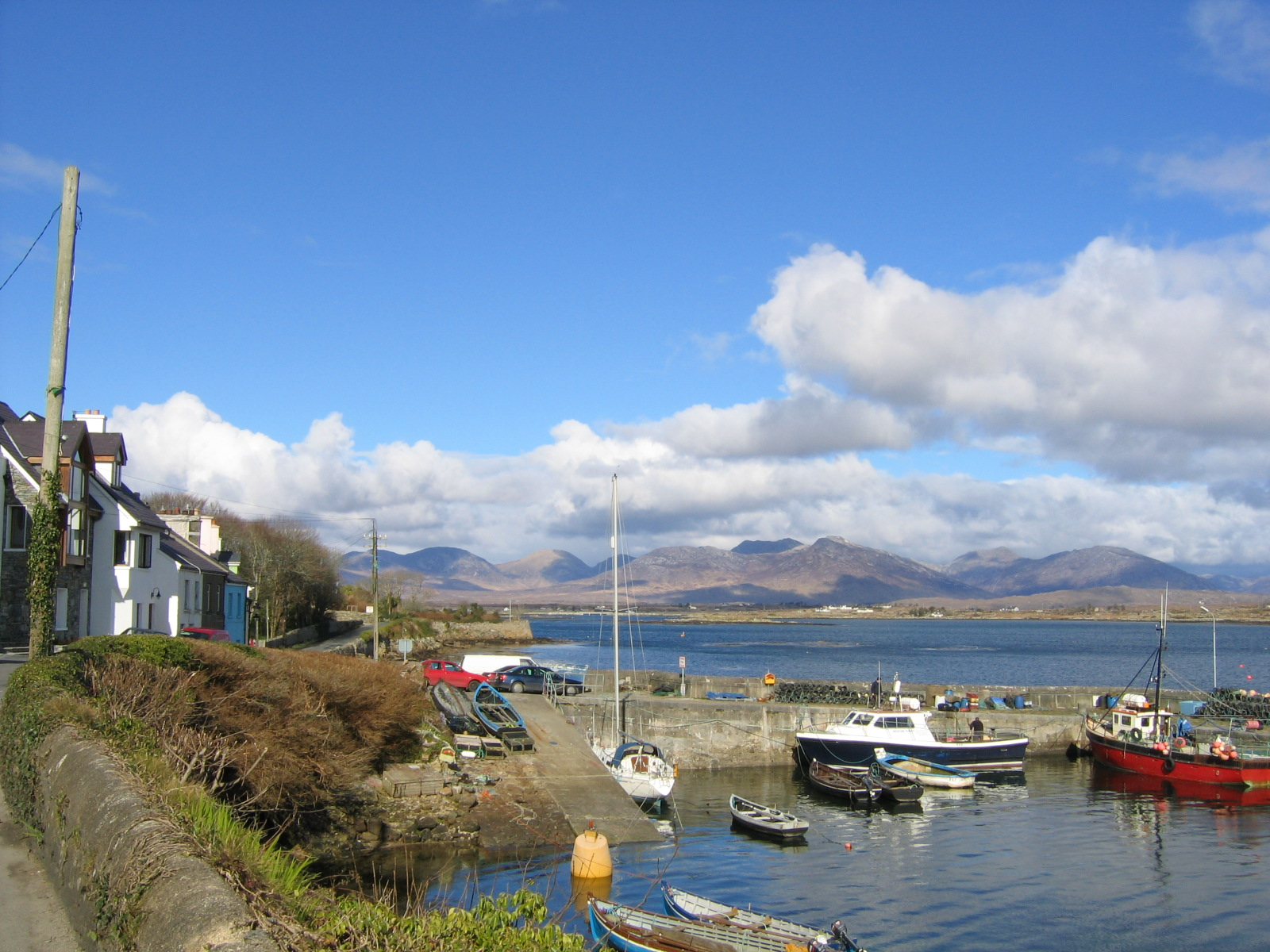 Roundstone, County Galway, Republic of Ireland.